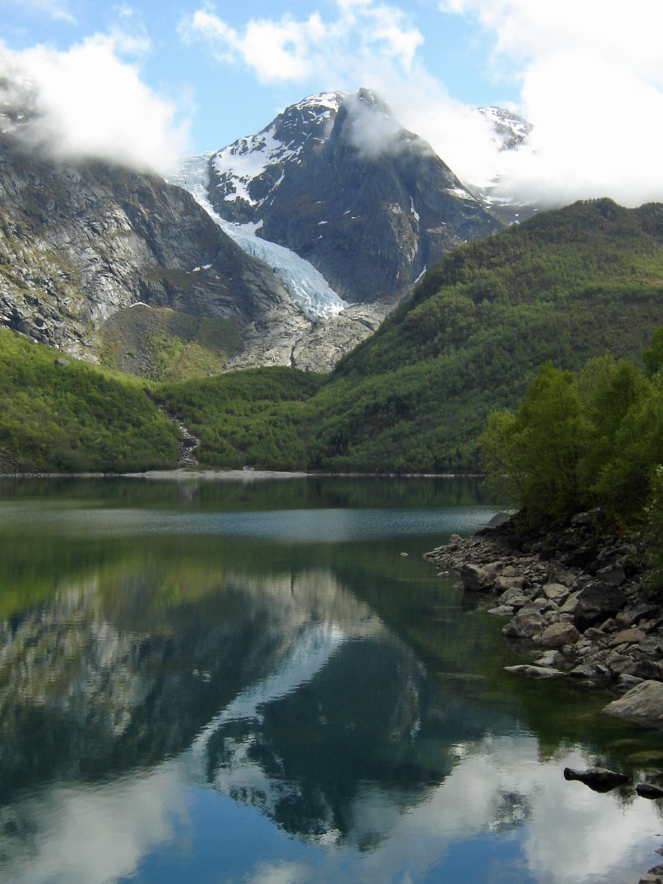 Folgefonna's ice front Bondhusbreen, Mount Fynderdalshorga & Bondhus Lake (foreground), Norway